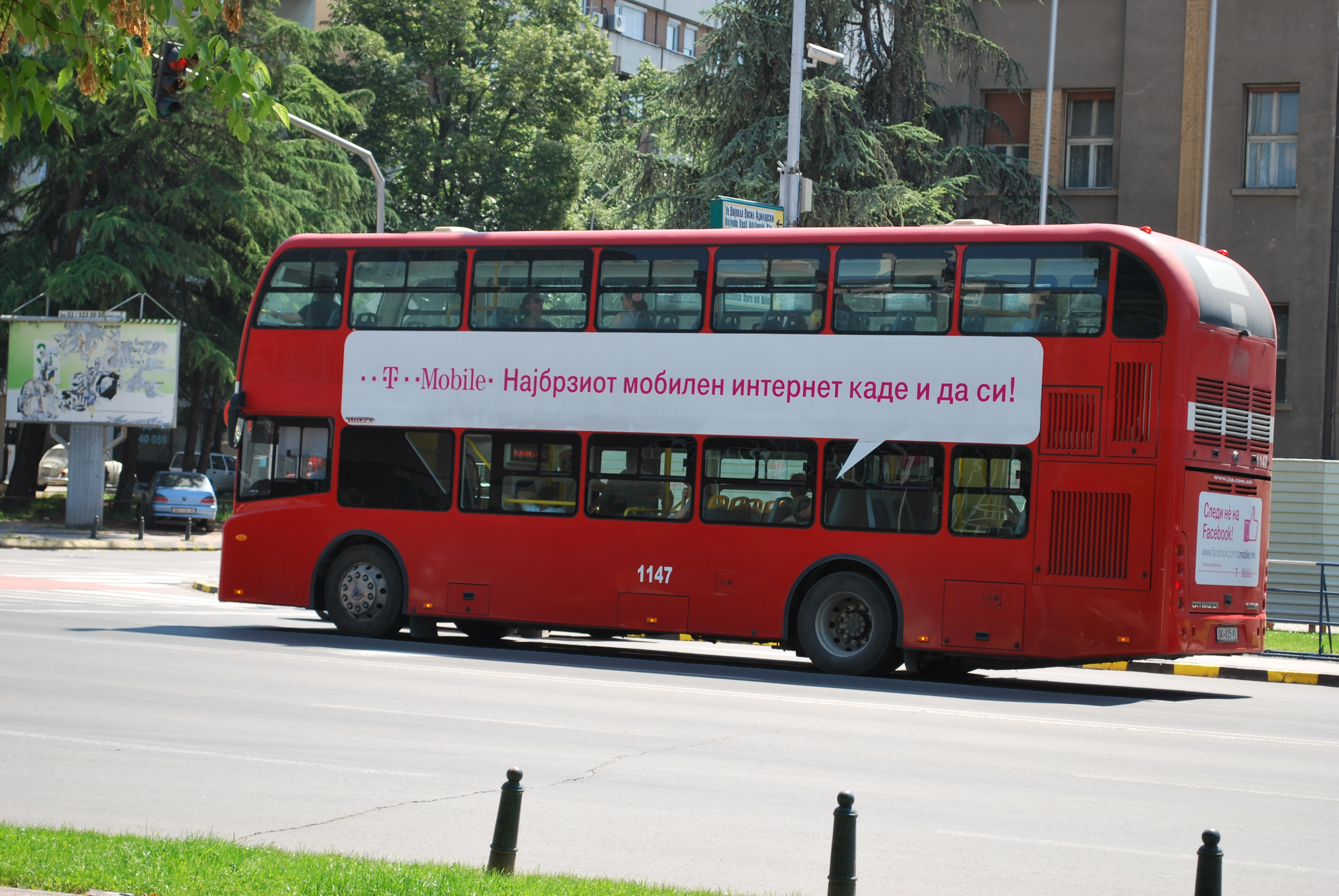 Skopje, Macedonia